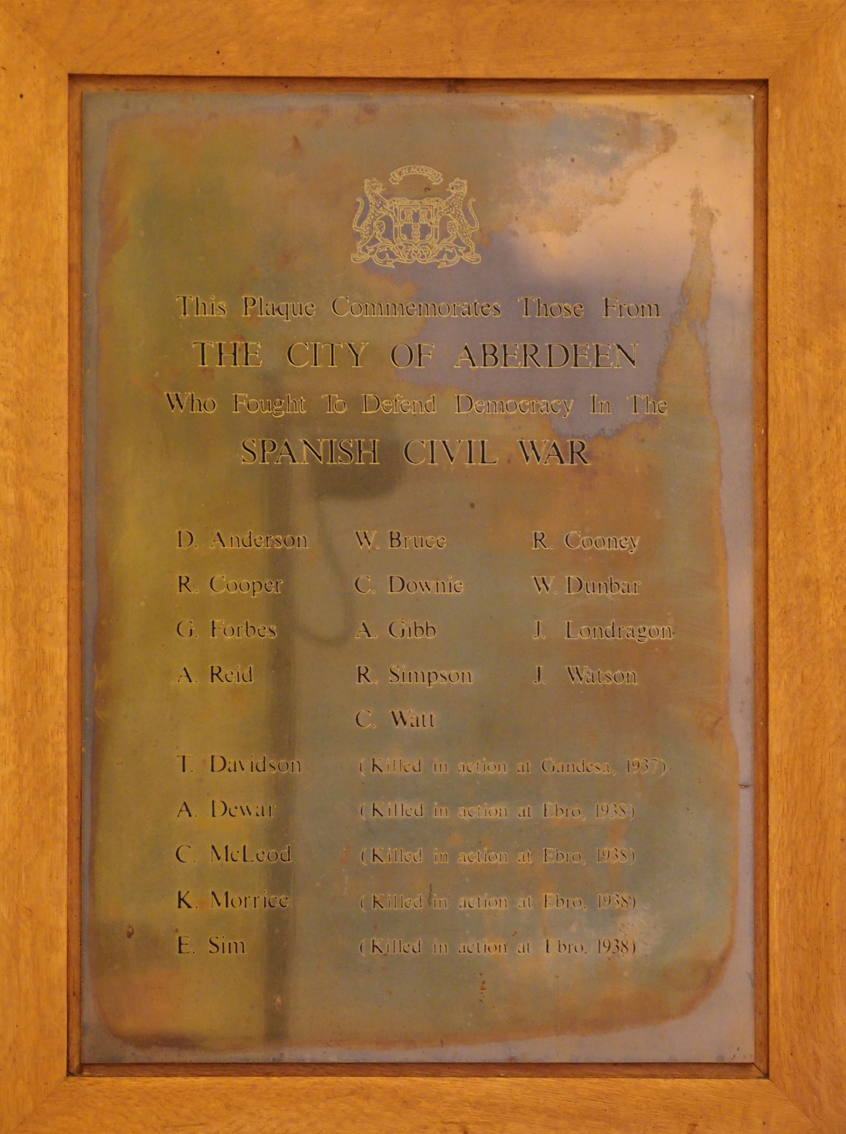 A plaque to the Aberdeen members of the XV International Brigade who fought in Spanish Civil War. Taken at rededication ceremony 25 Jan 2020.